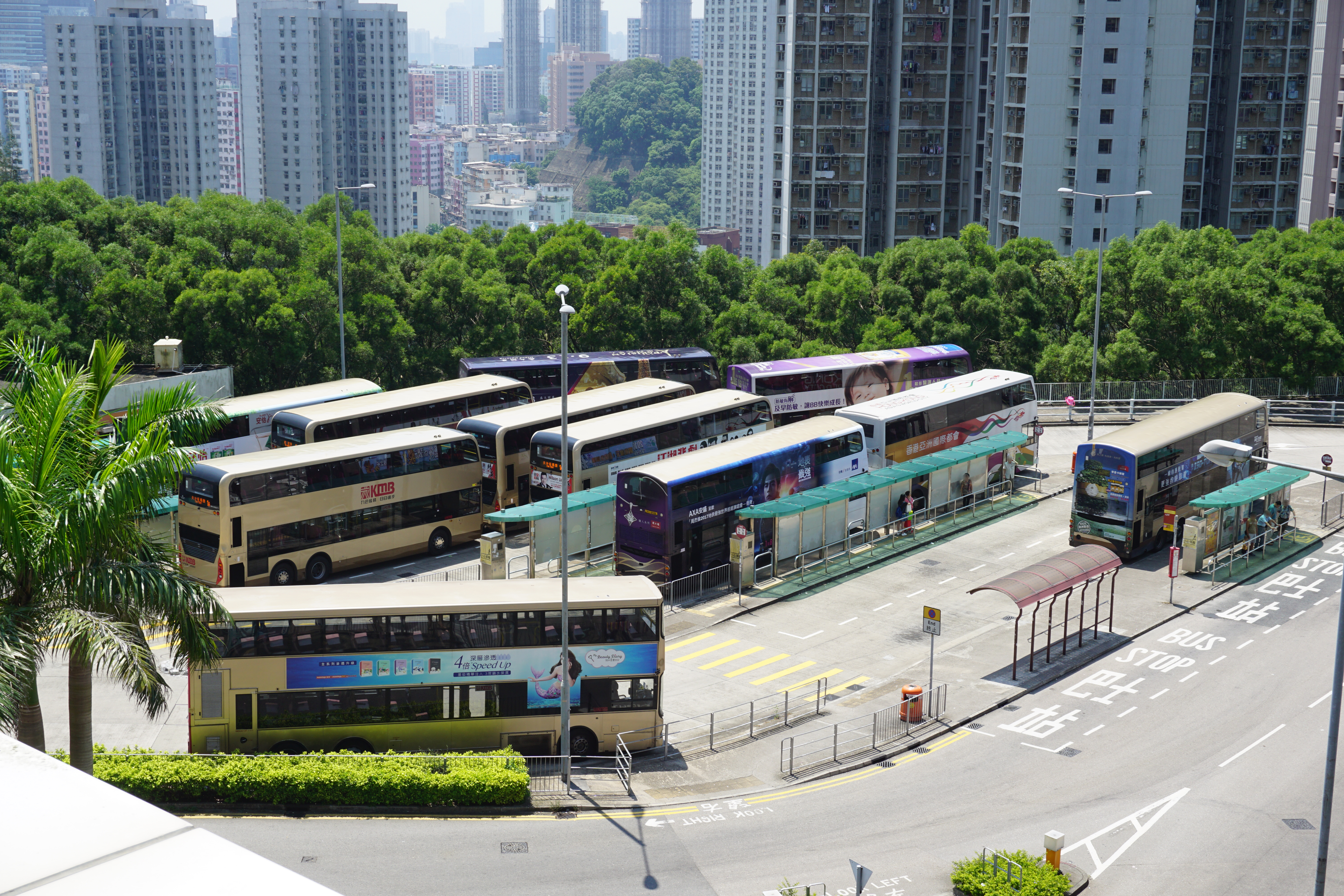 (Central) Bus Terminus in Sau Mau Ping, Hong Kong.